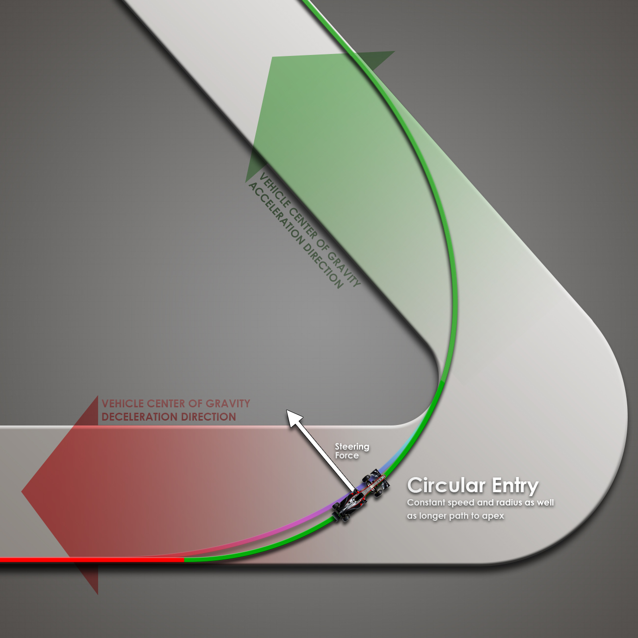 Racing Line traditional braking with circular entry